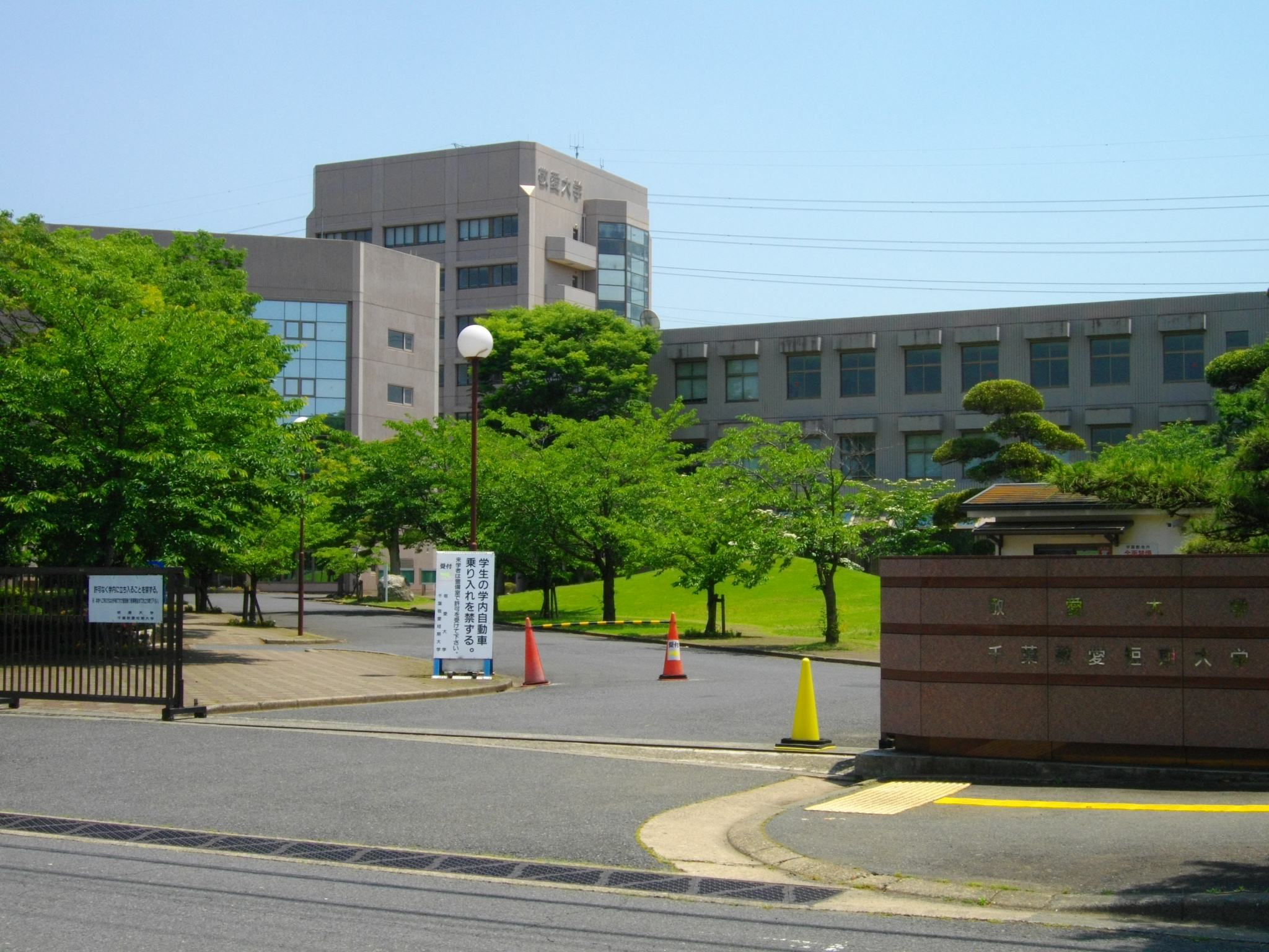 Keiai University Sakura Campus